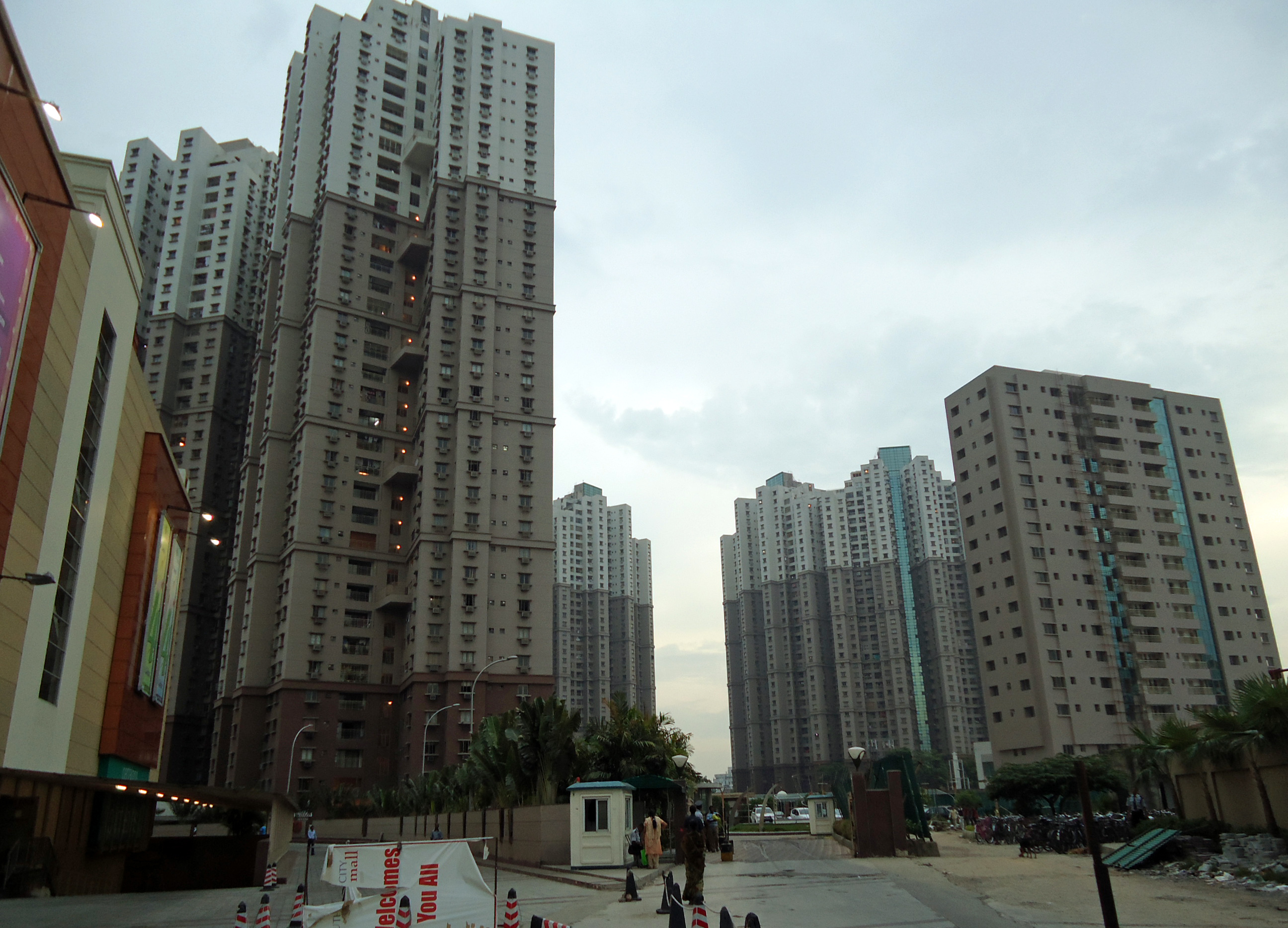 Grand view from the entrance